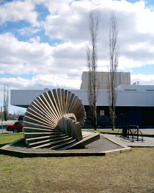 The sculpture Vertere (1981) by Paul Epp in front of the Canada Games Complex